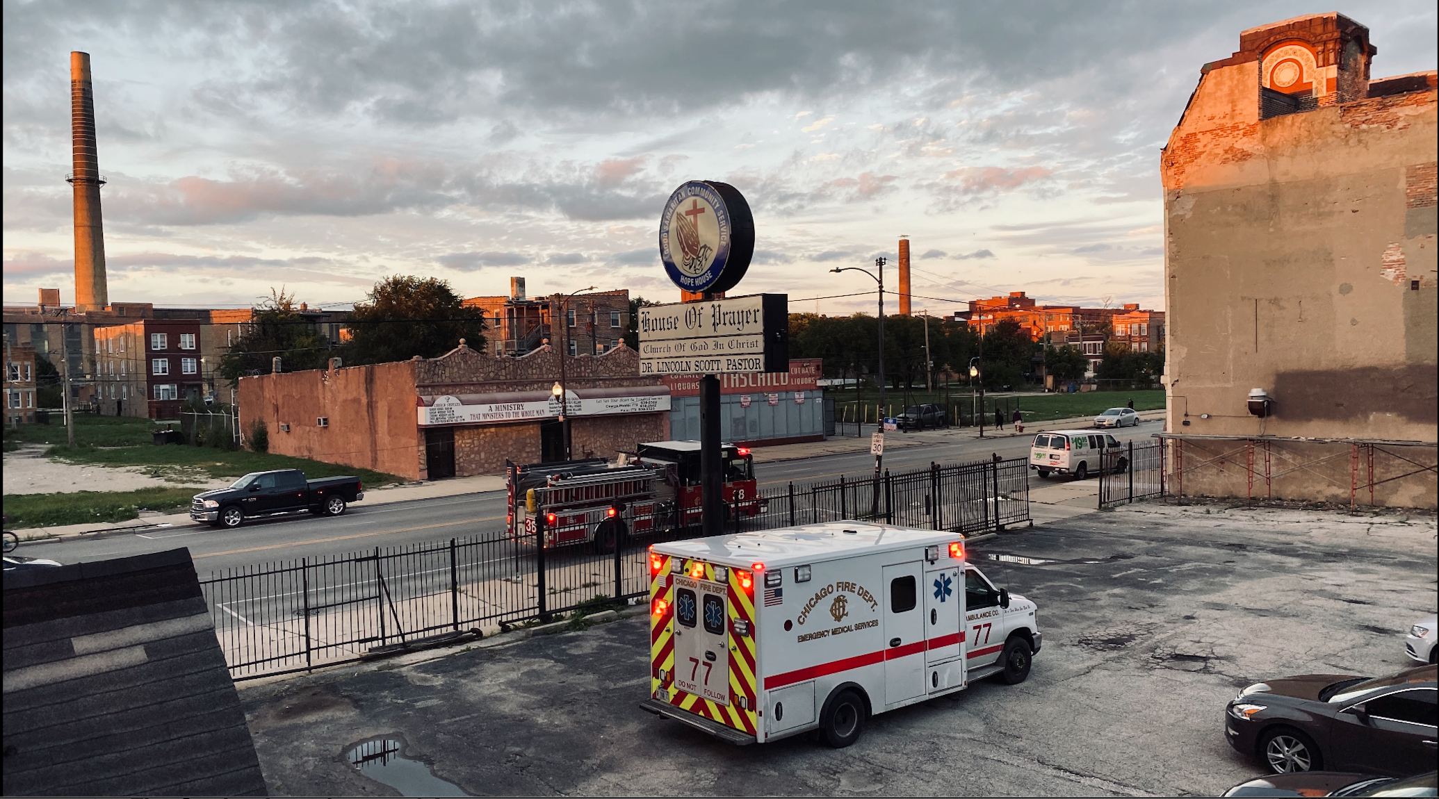 Ambulance 77 & Engine 38 rendering aid on Roosevelt Ave.